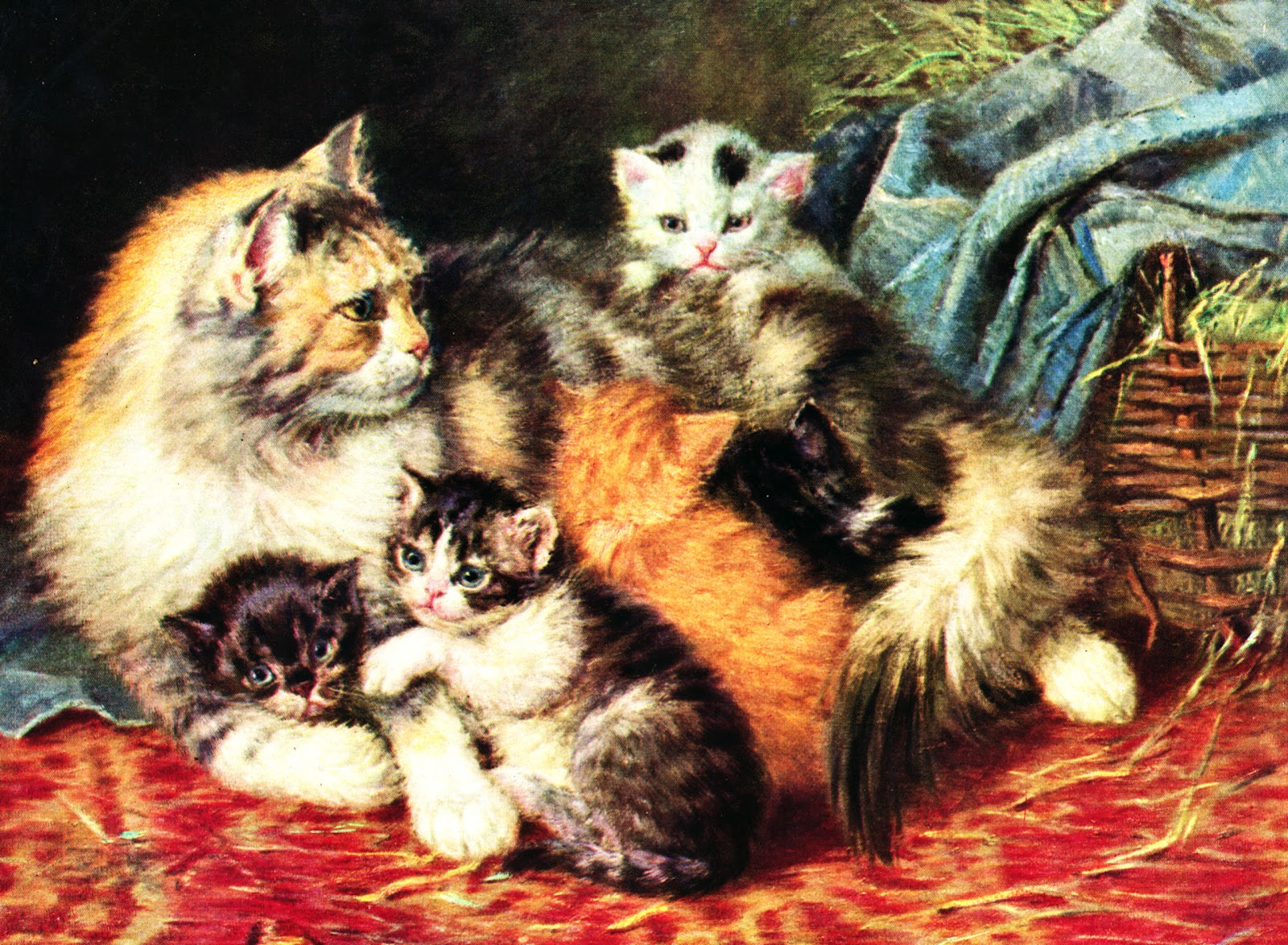 Mädi mit ihren Kindern (1913) by German artist Minna Stocks (1846-1928)